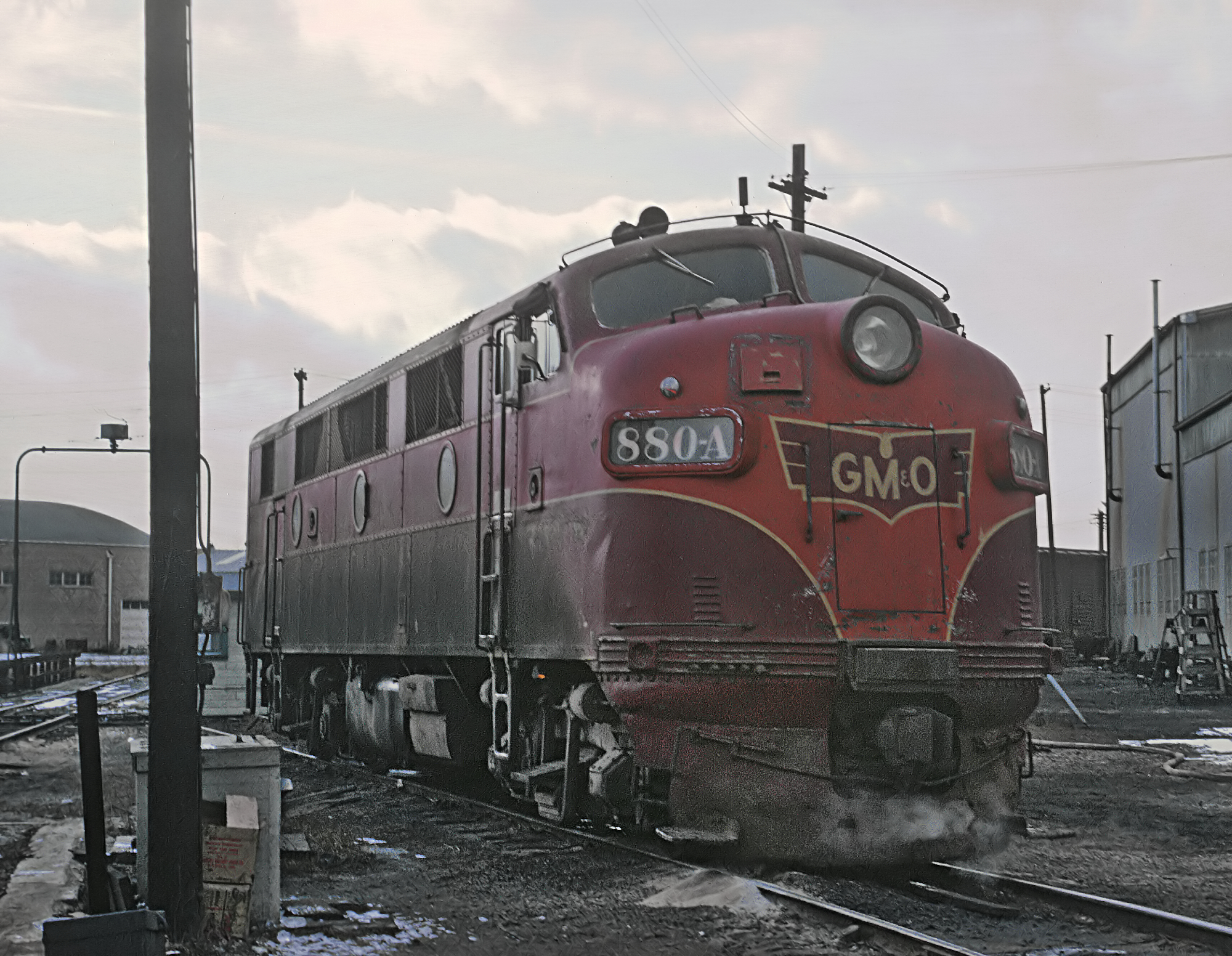 A Roger Puta Photograph